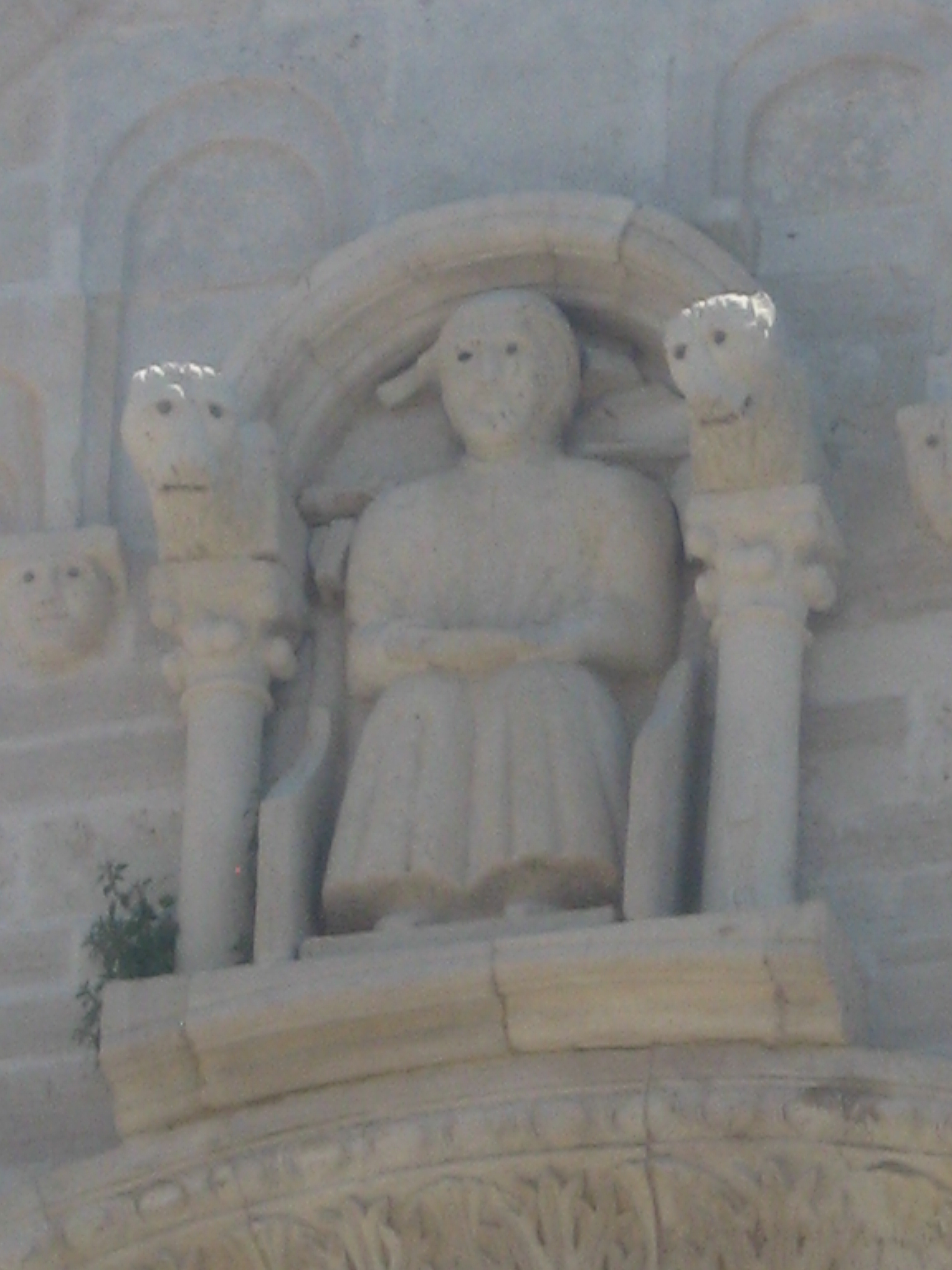 Sedente